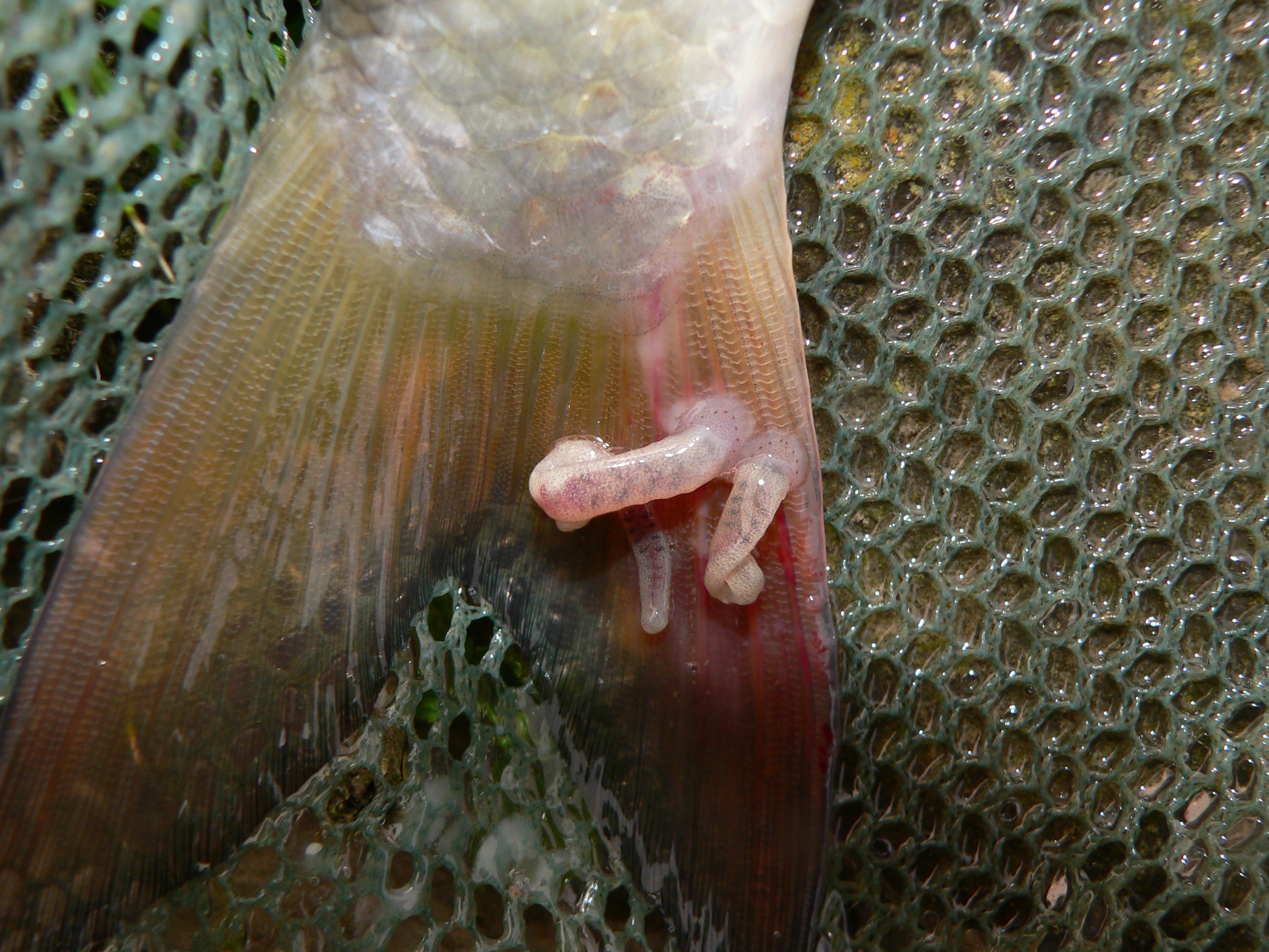 Fish leeches Cystobranchus respirans on Roach Rutilus rutilus